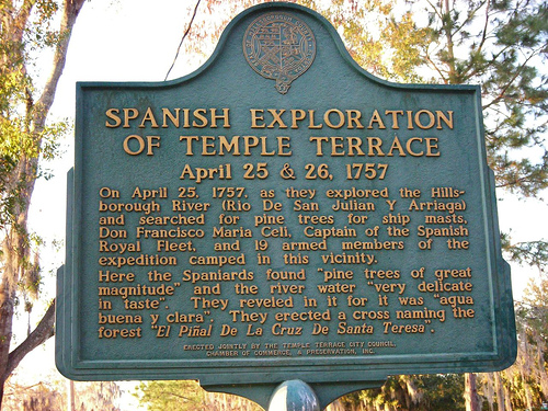 Photo of the Don Francisco Maria Celi plaque at Riverhills Park, Temple Terrace.